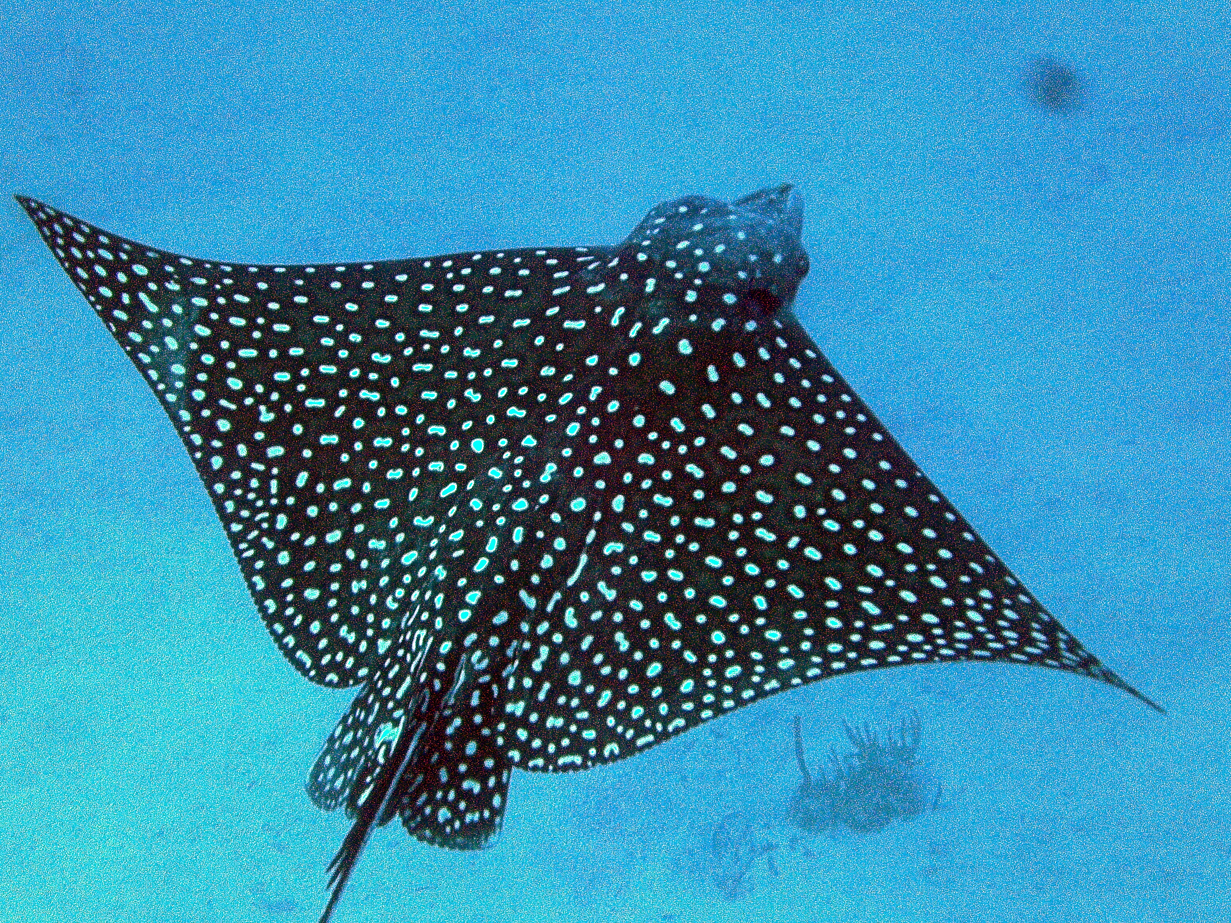 spotted eagle ray (Aetobatus narinari)